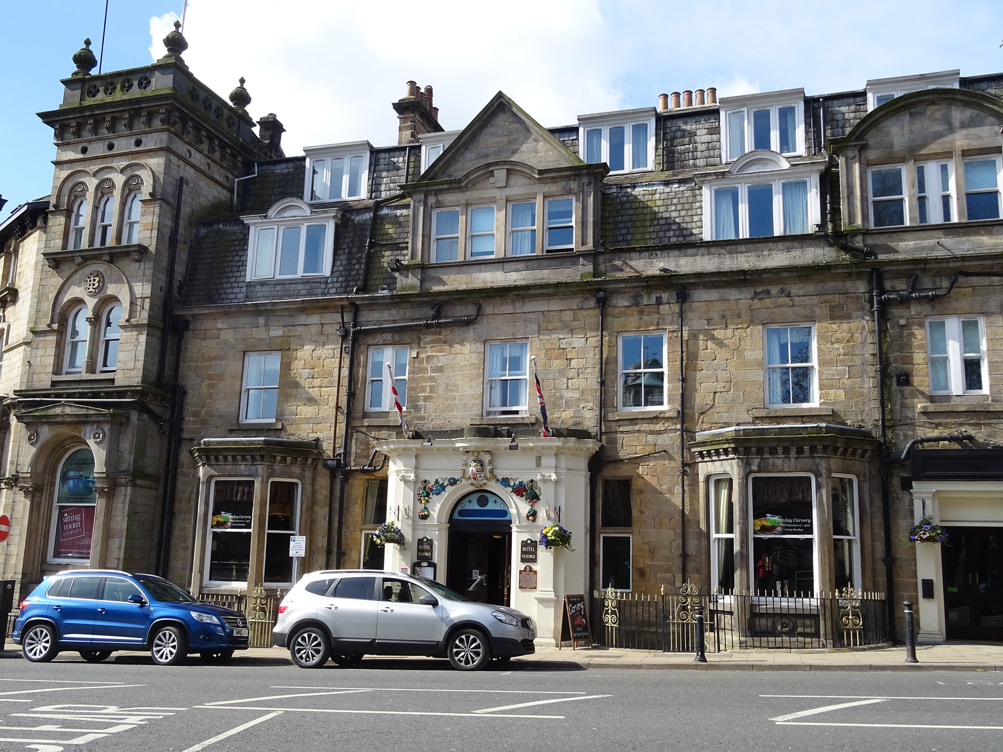 Hotel St.George This hotel grew out of the Chequers Inn built near the C18 toll bar on the Leeds and Ripon turnpike roads. Renamed the "George" after George III's gift of the Stray in 1778, the hotel was enlarged on several occasions during the C19. A fire on 5th May 1927 damaged much of the roof, but the internal stained glass survived. Renamed the "St.George" shortly before the First World War, in the Second, the hotel was requisitioned by the Post Office and Air Ministry. It re-opened in 1952, and acquired a Spa facility in 1985. 2005